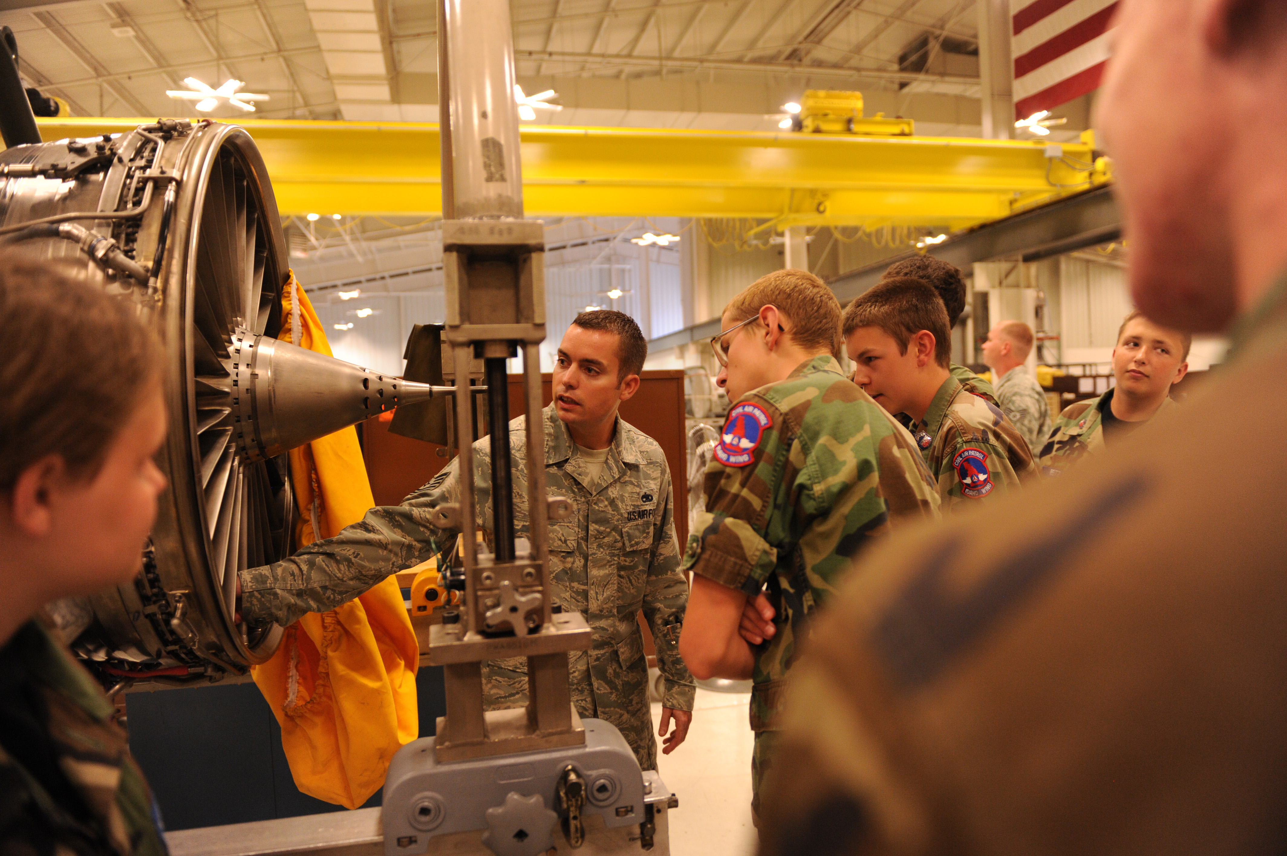 8/2/2013 - Civil Air Patrol students enjoy a base tour July 23, 2013, at Mountain Home Air Force Base, Idaho. The students observed multiple demonstrations during the tour that tied in with their aerospace education. (U.S. Air Force photo by Airman 1st Class Malissa Lott/ Released)